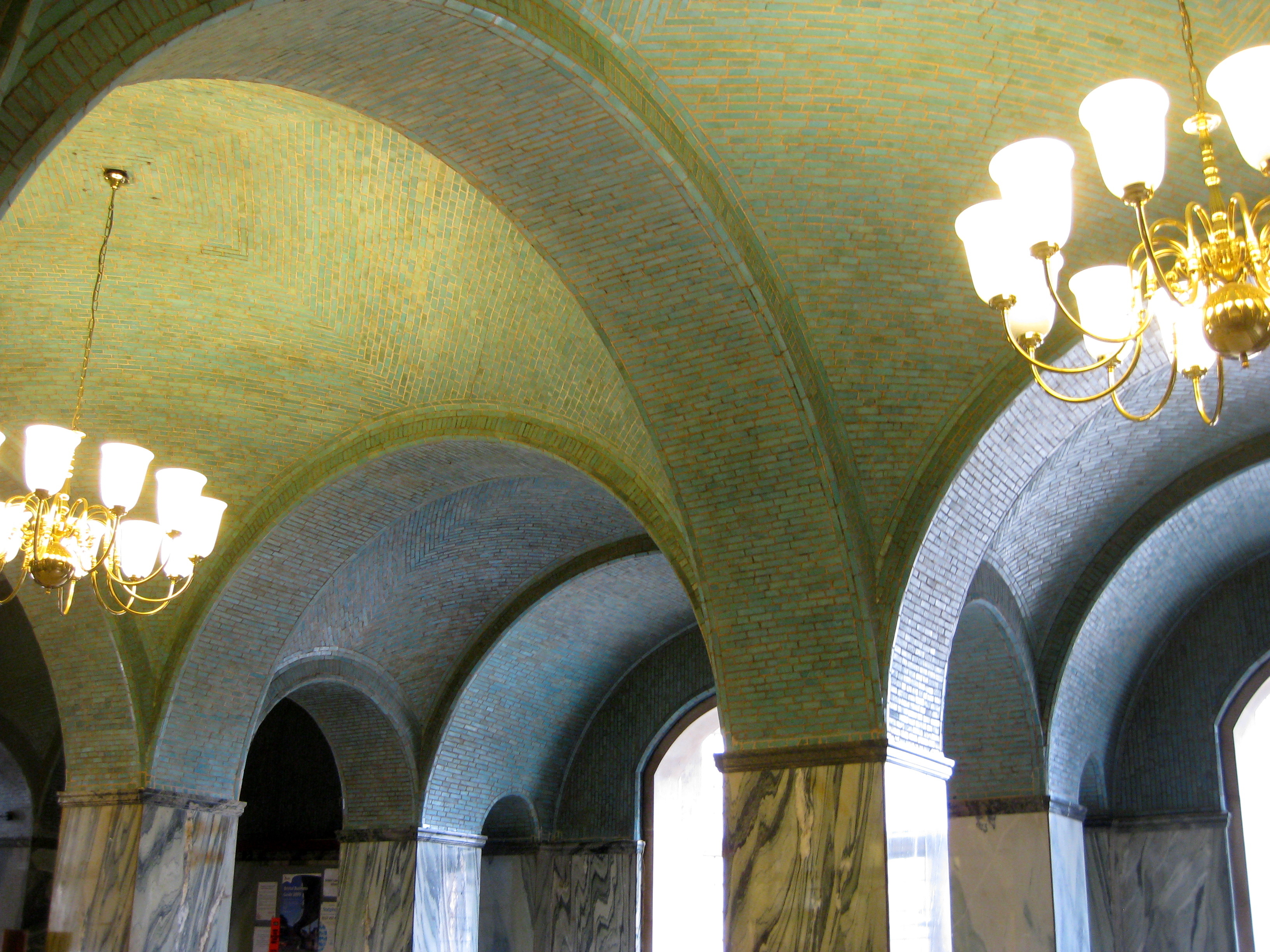 Tiled vaulted ceiling on the ground floor of Bristol Central Library